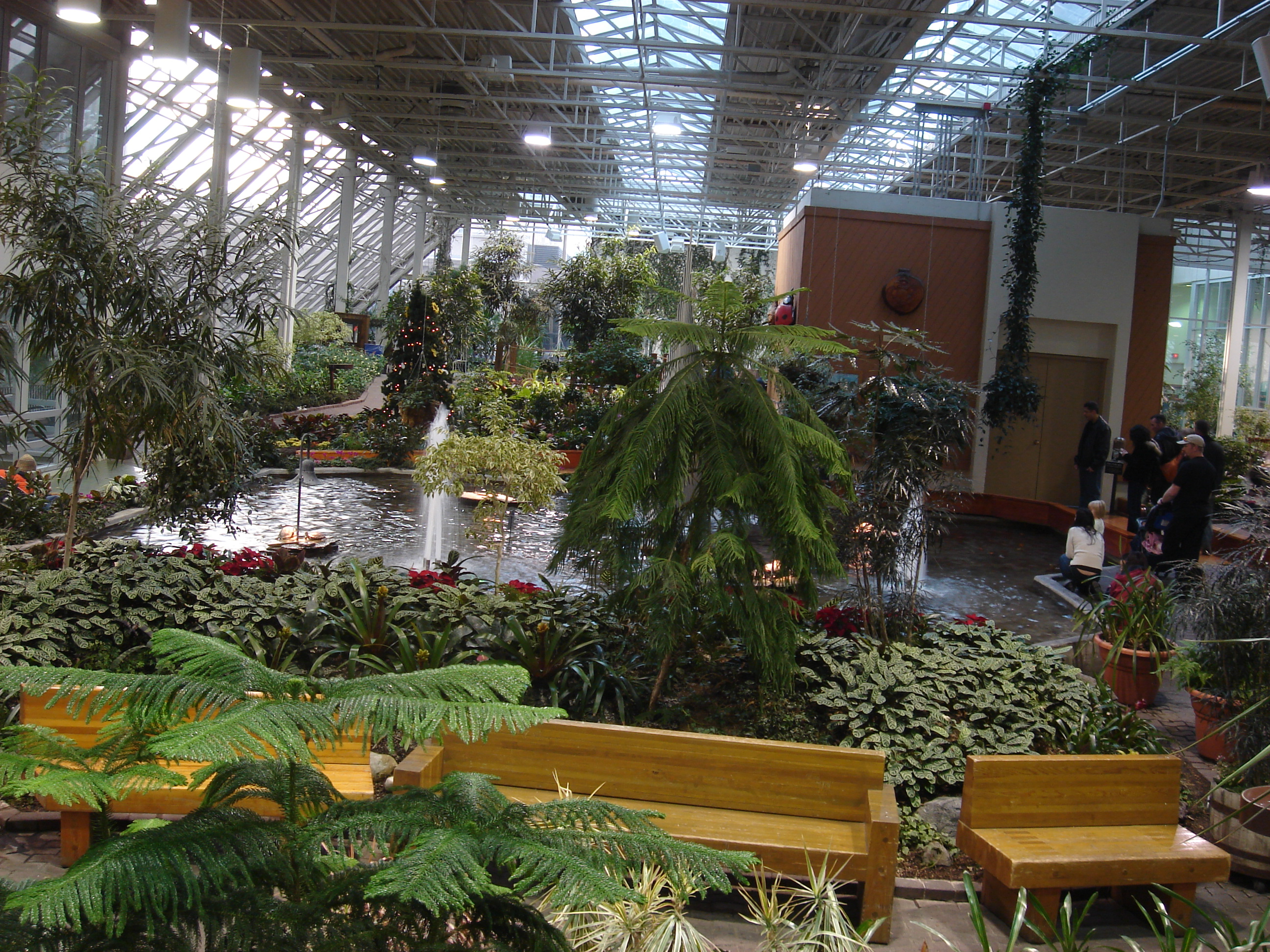 Devonian Gardens botanical garden in Calgary, Alberta, Canada, waterfall